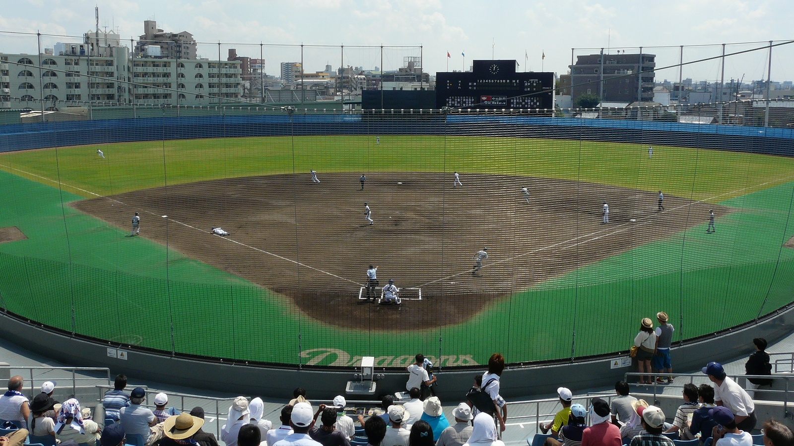 Nagoya_Baseball_Stadium_05